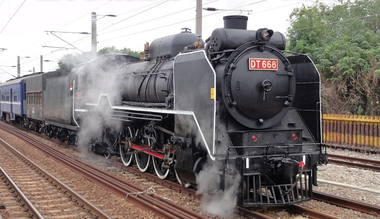 The Taiwanese steam locomotive DT668 on trial run.